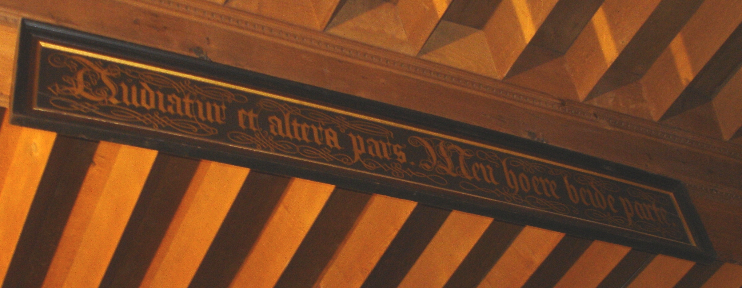 A table below the ceiling saying "Audiatur et altera pars - Men hoere beide Parte" in the "Friedenssaal" of the historical city hall in Münster, Westphalia, Germany